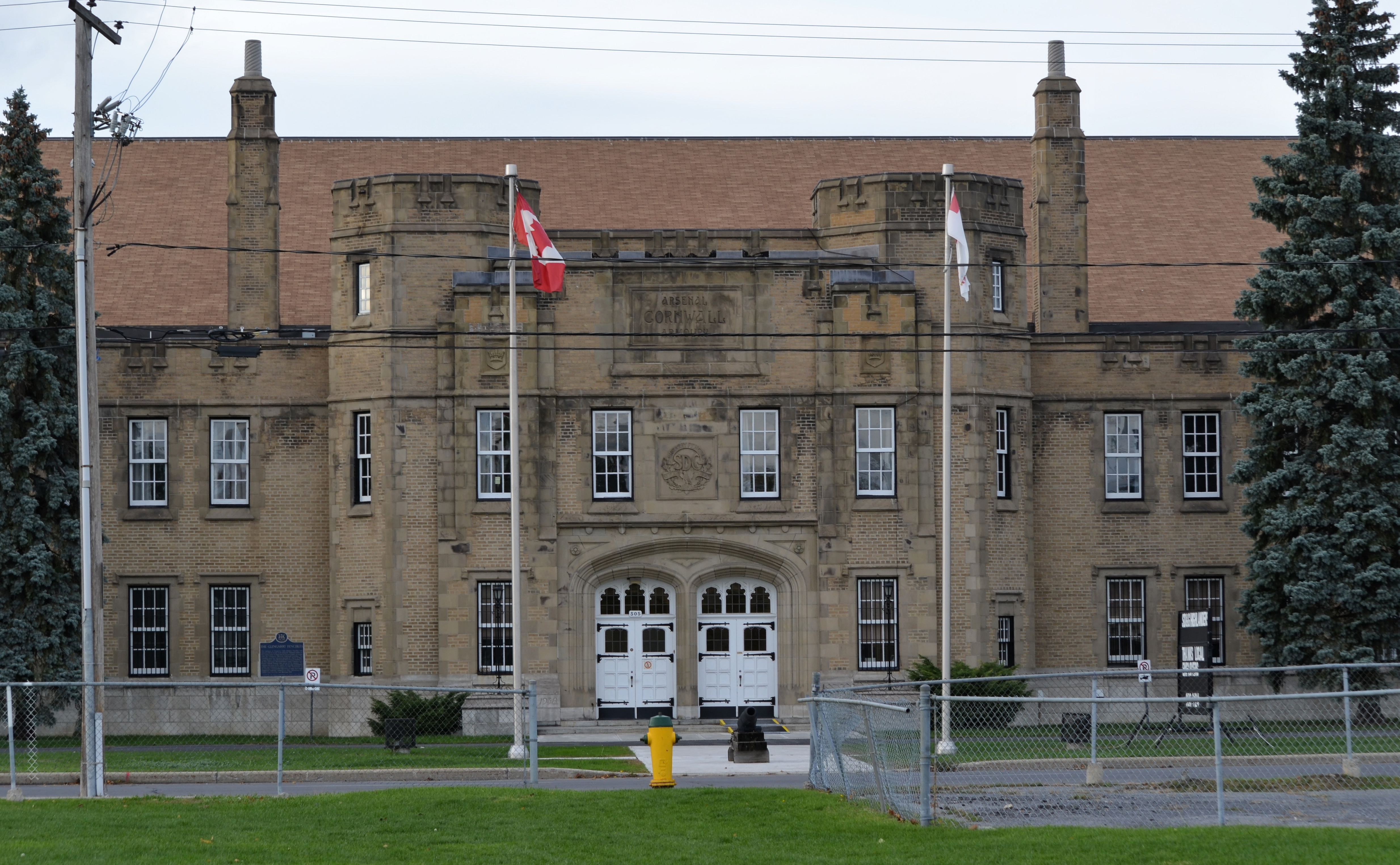 Cornwall Armoury